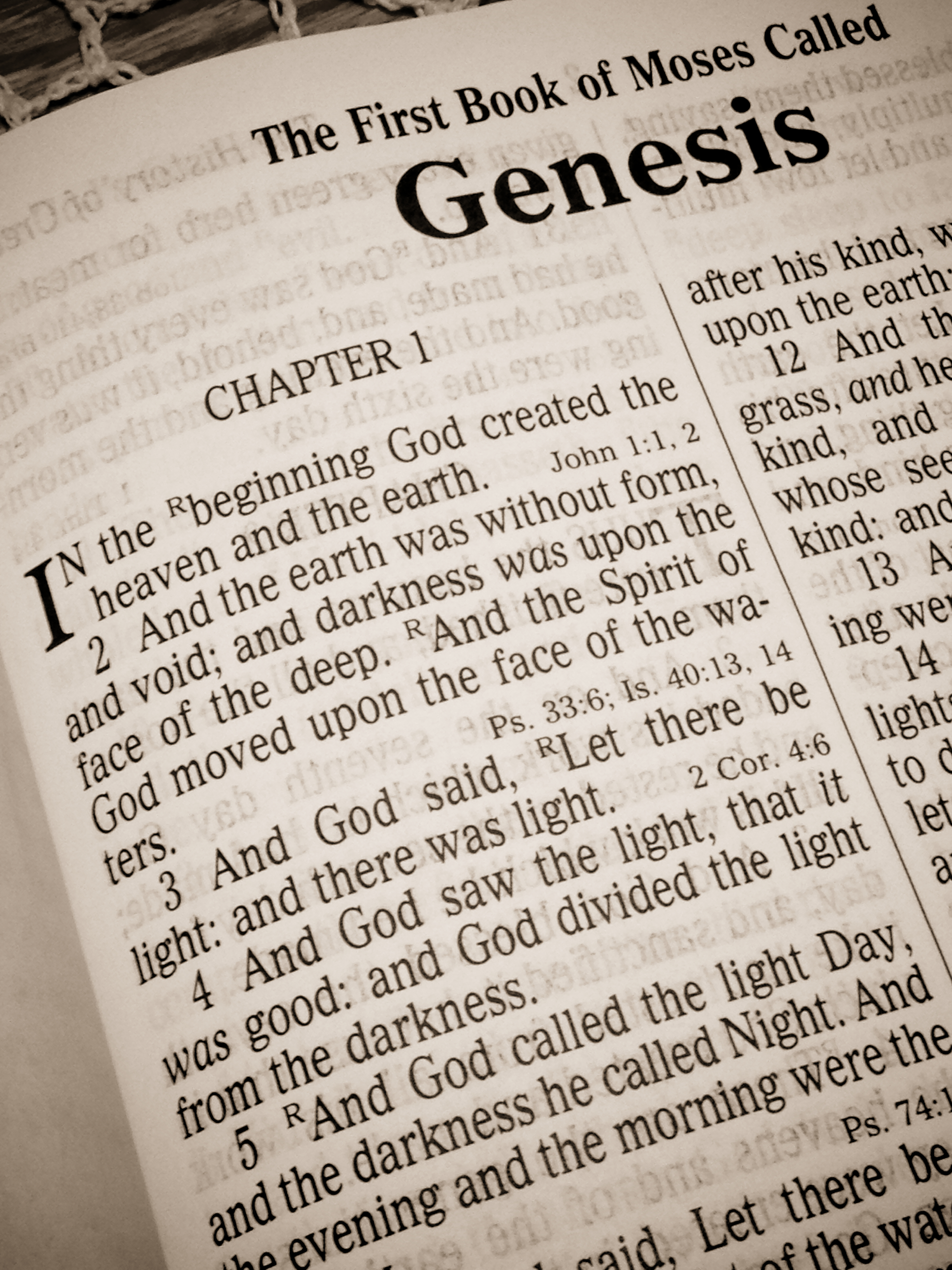 bible, king james version, Book of Genesis